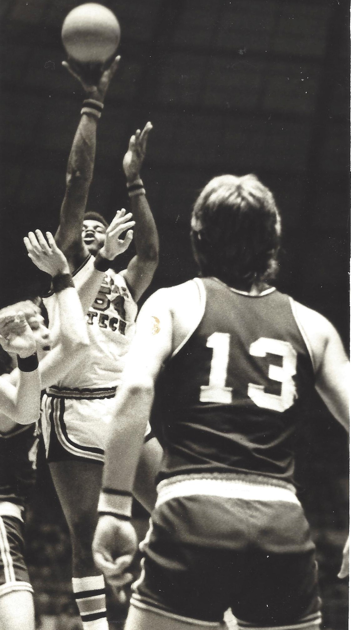 Rick Bullock shoots a shot during a home game.